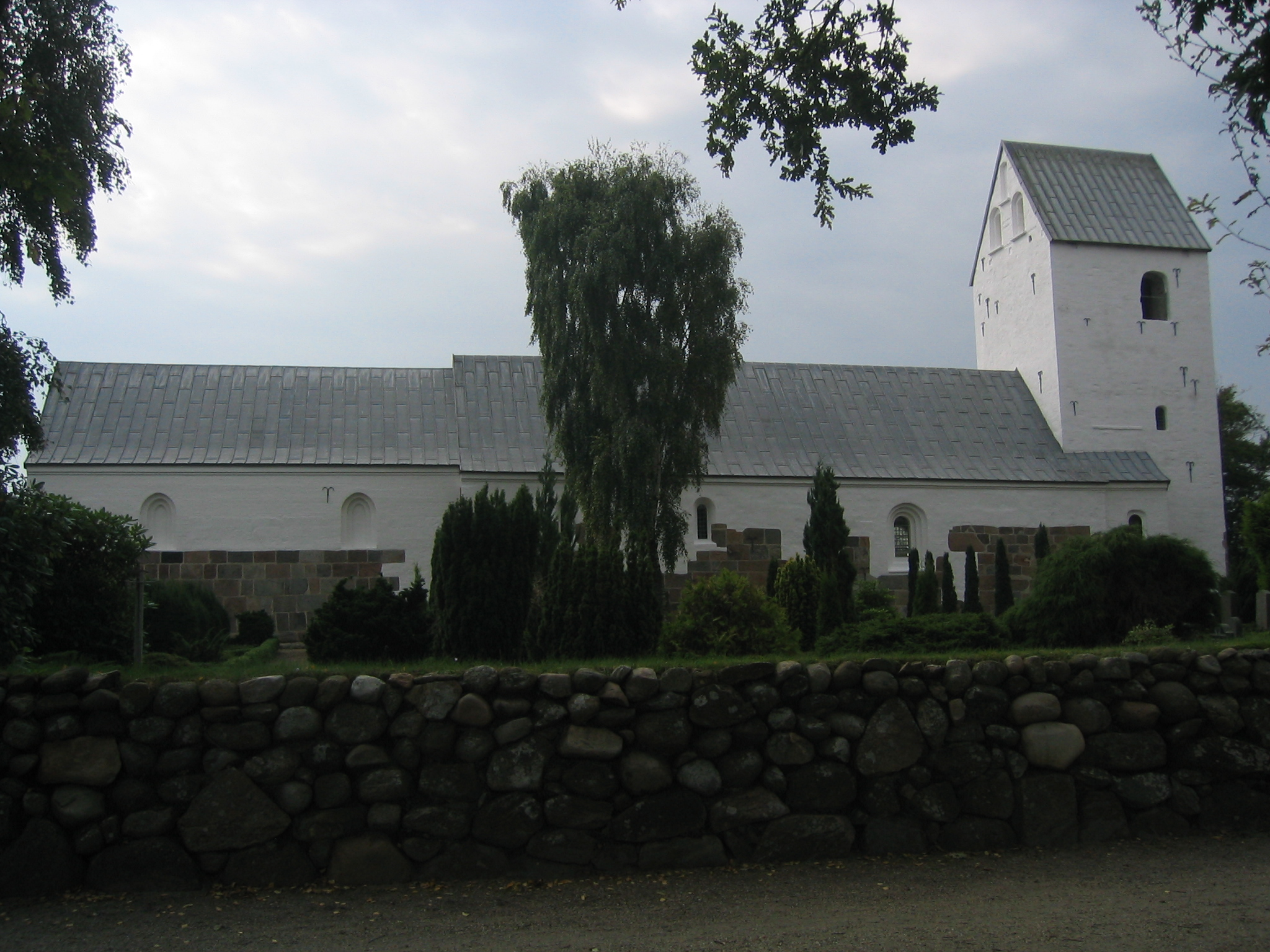 Nørre Nebel Church. (Note: Picture has Geotag information stored in EXIF.)